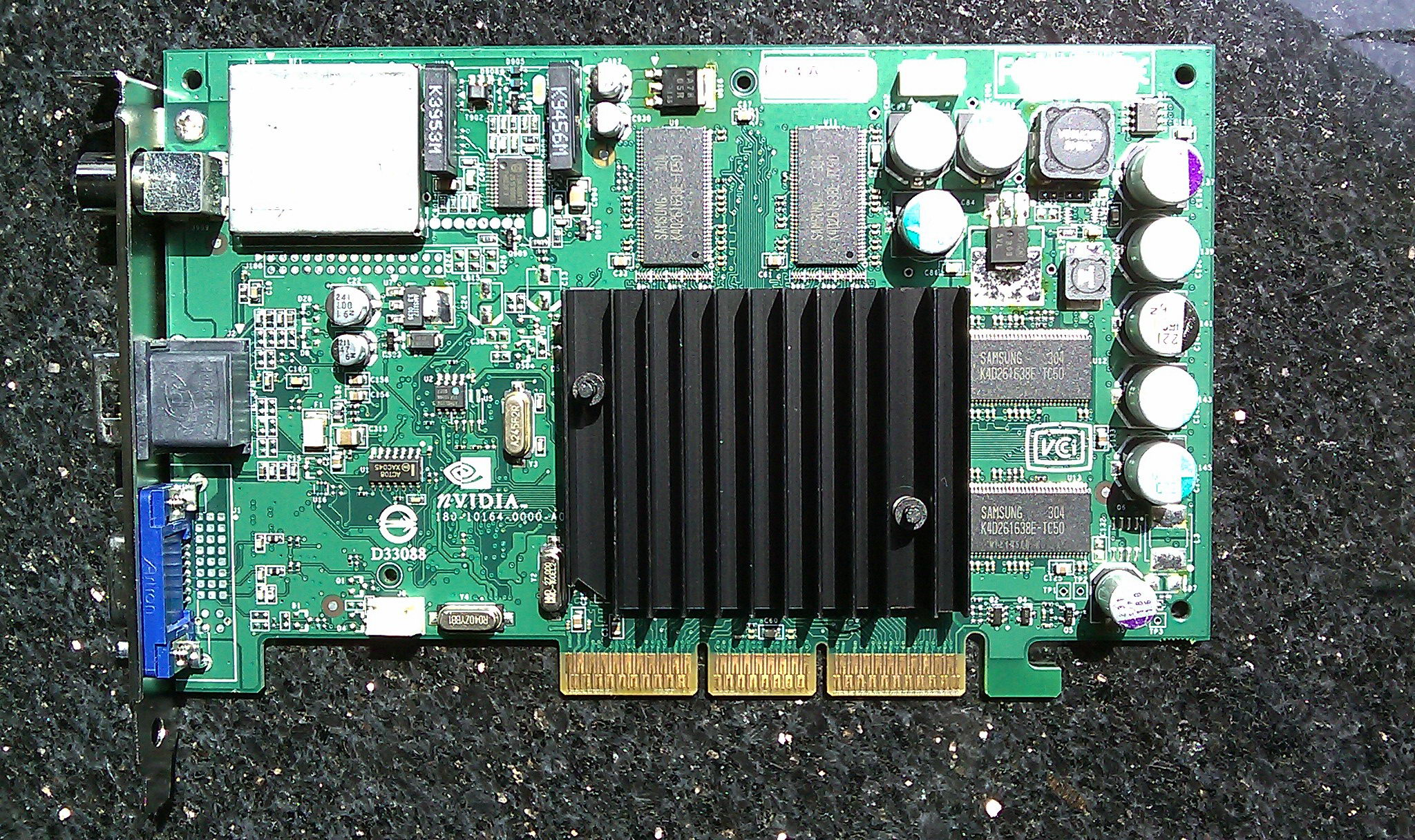 NVIDIA engineering sample graphic card